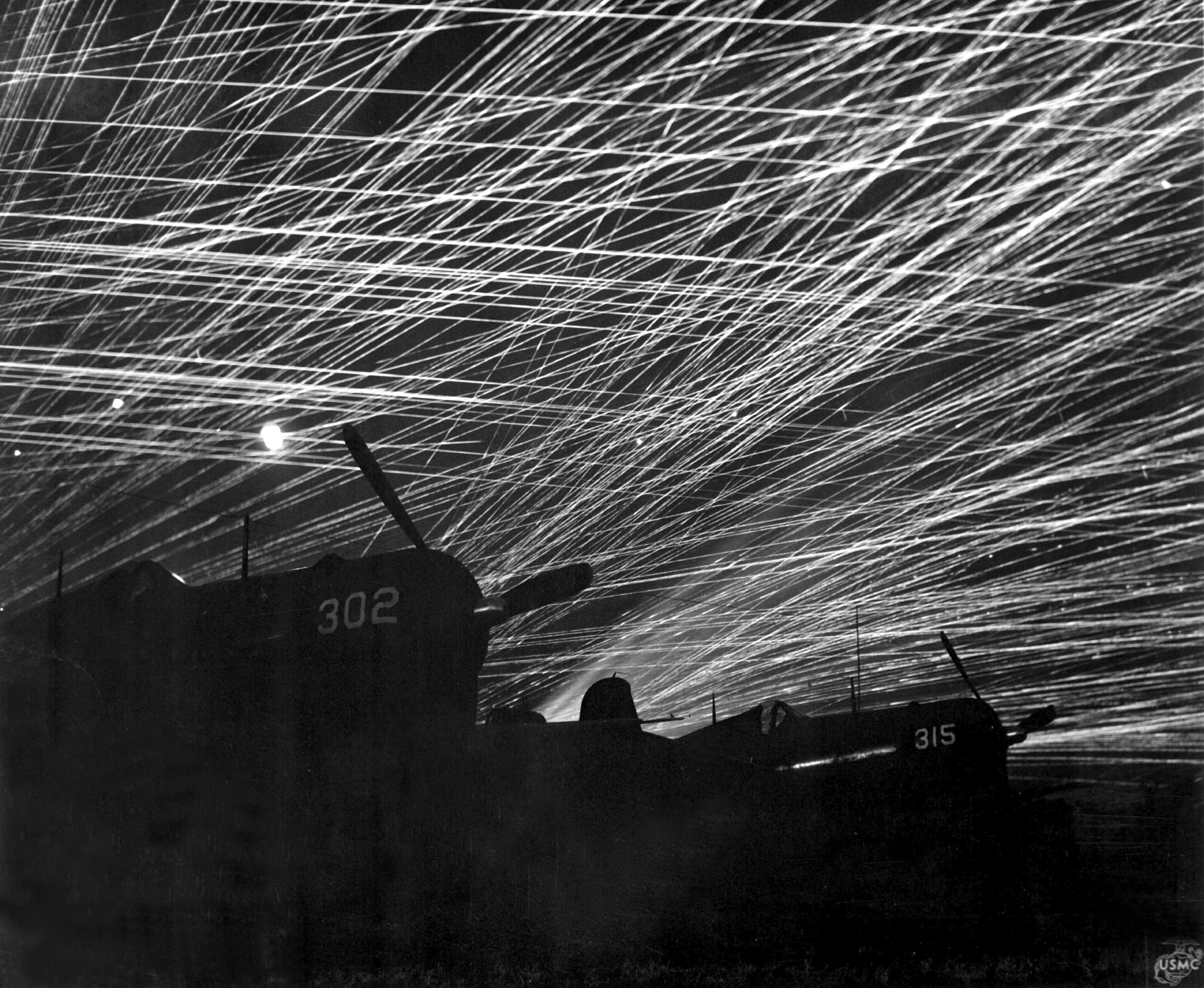 Japanese night raiders are greeted with a lacework of anti-aircraft fire by the Marine defenders of Yontan airfield, on Okinawa. In the foreground are Marine Corsair fighter planes of the "Hell's Belles' squadron. 1945. T.Sgt. Chorlest. (Marine Corps) Exact Date Shot Unknown NARA FILE #: 127-G-118775 WAR & CONFLICT BOOK #: 1235